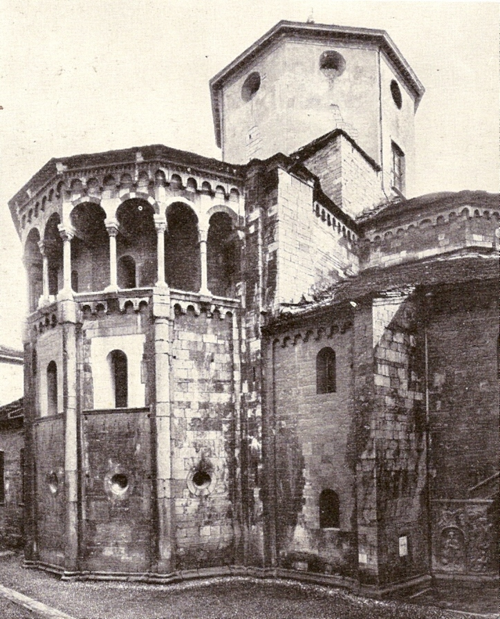 Apse of San Fedele basilica, Como (Italy).